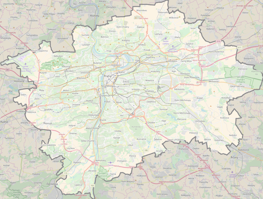 Map of Prague to be used for geolocation purposes, created using with edited colours and emphasized borders